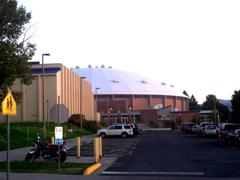 Brick Breeden Fieldhouse, on the campus of Montana State University, Bozeman, Montana. The building in the foreground is Shroyer Gym-home court for the MSU Bobcats Volleyball team.